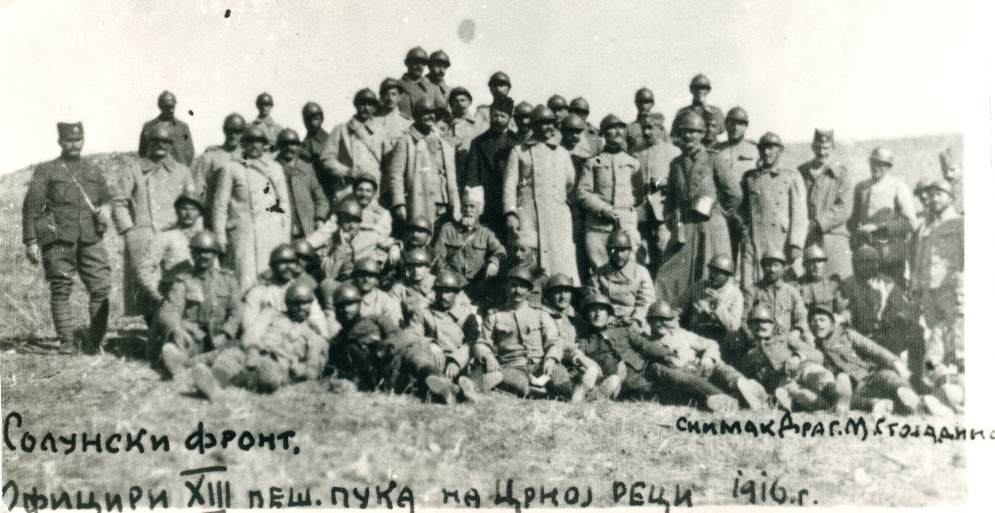 Thessaloniki Front, Officers of the 13th Hajduk Veljko Infantry Regiment on the Black River in 1916. Srpski (latinica): Solunski front, Oficiri 13. pešadijskog puka "Hajduk Veljko" na Crnoj reci 1916.